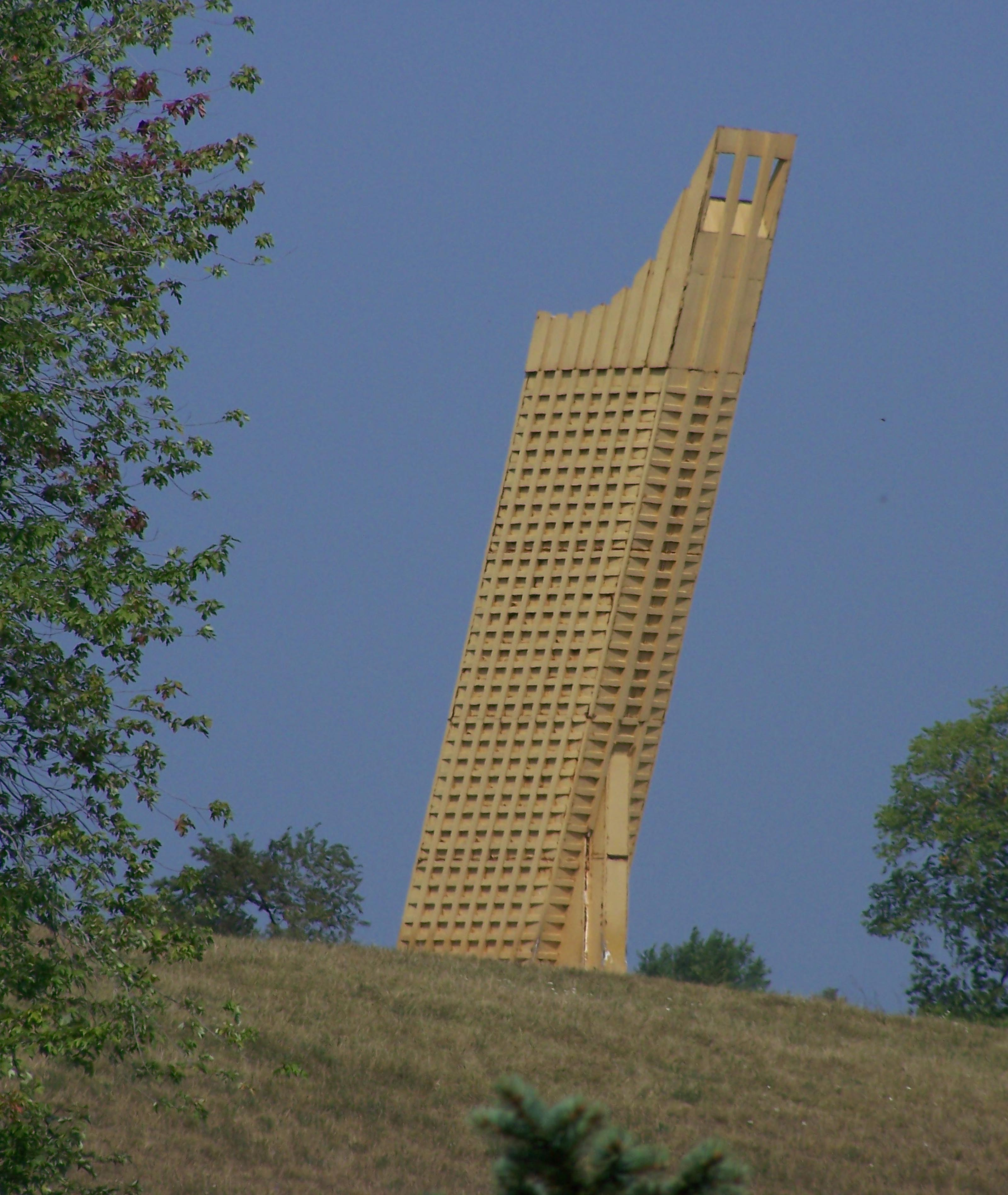 Photo of 50 foot model Tom Monaghan's Leaning Tower of Pizza at Domino's headquarters in Ann Arbor Charter Township, Michigan. Photo by M Barnett (mgordonb) 03-sep-2008.